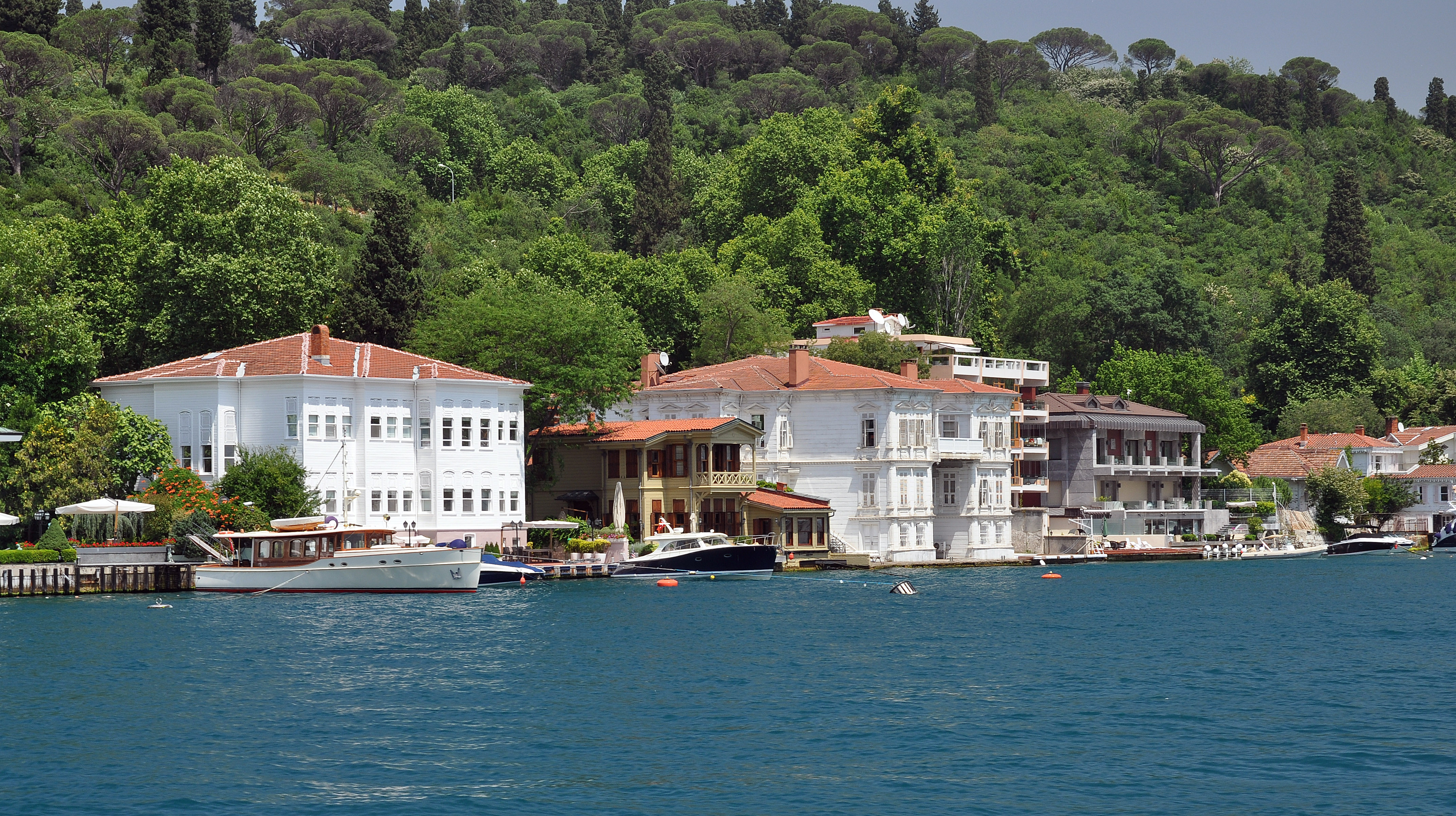 Yağlıkçı Hacı Reşit Bey Yalısı and Prenses Rukiye Yalısı, the Yalı mansions on the Bosphorus shore in Istanbul, Turkey. Located at Kanlıca, they were built in the 1850s. The manor Prenses Rukiye Yalisi was given as a gift to Rukiye princess, the daughter of the governor of Ottoman Egypt, Abbas Halim Pasa. The house is surrounded by planting Mihrabad.